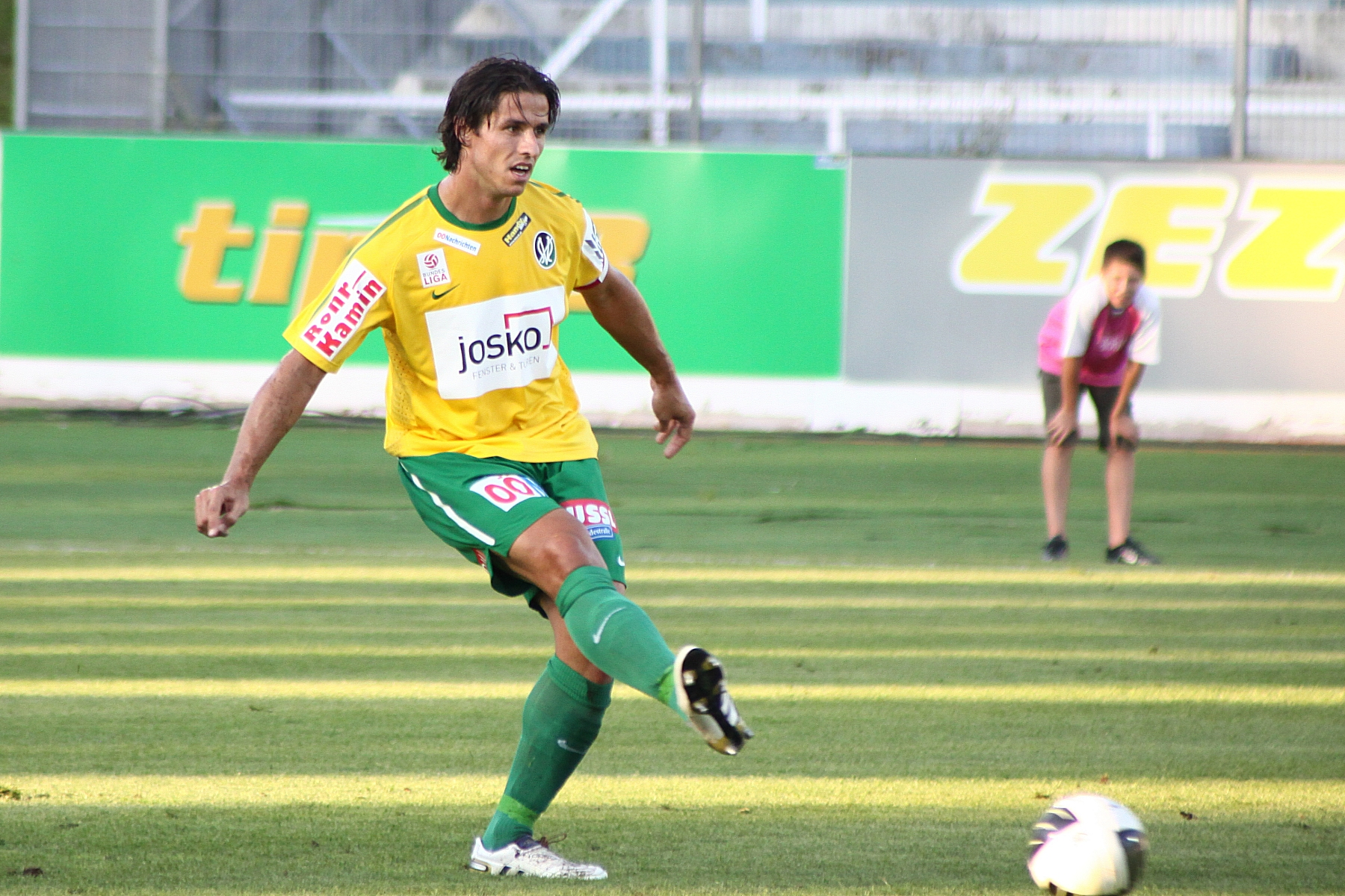 en: - SV Ried